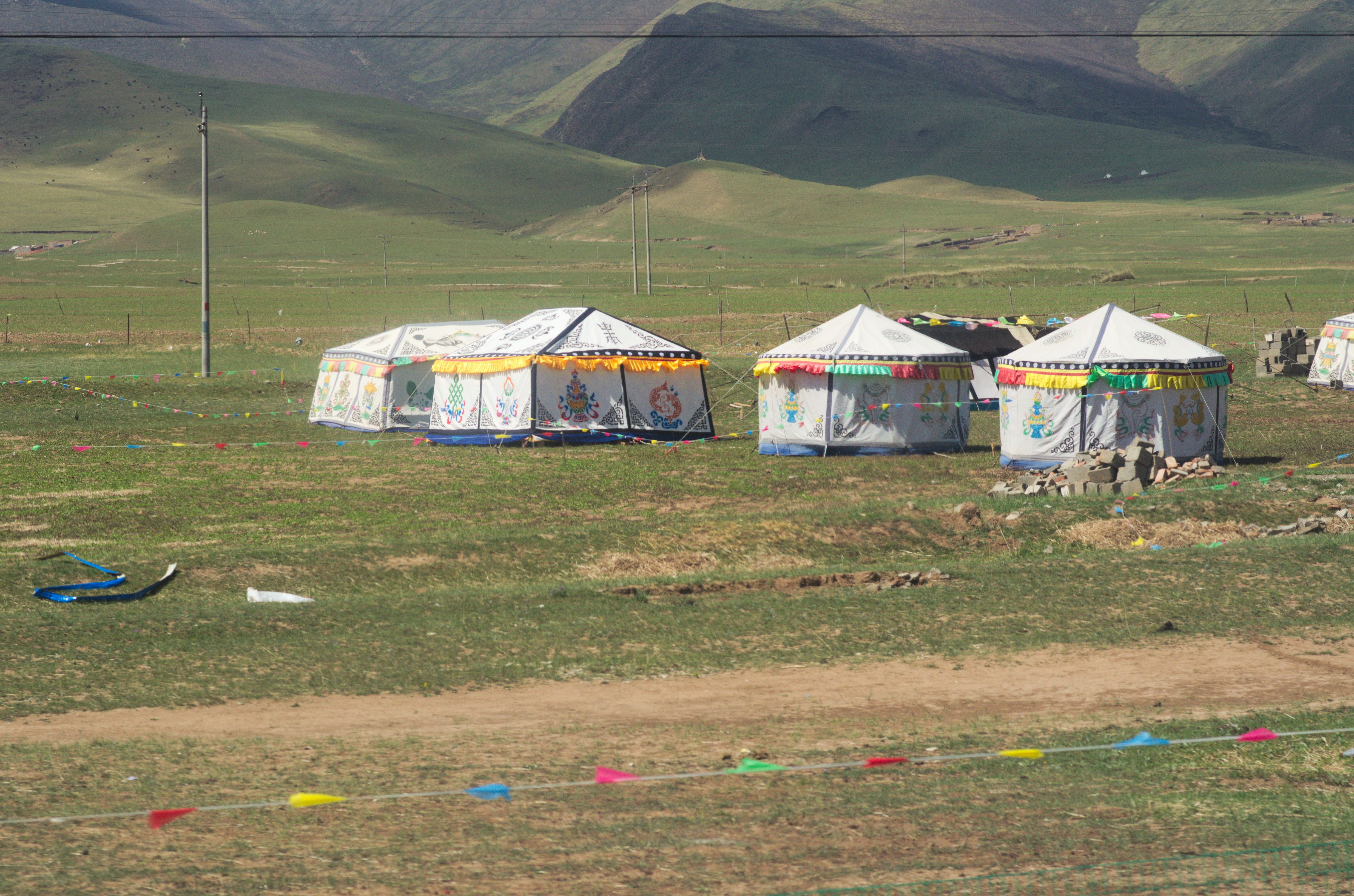 Yugur yurts (ger, meaning house ine mongolian), around Qinghai Lake in Qinghai province. Several typical mongolian patterns are on the canvas. Fishs are symbols of duality, the simplified version, as seen on Soyombo are similar to the Taijitu symbol. See the cropped version for more details.